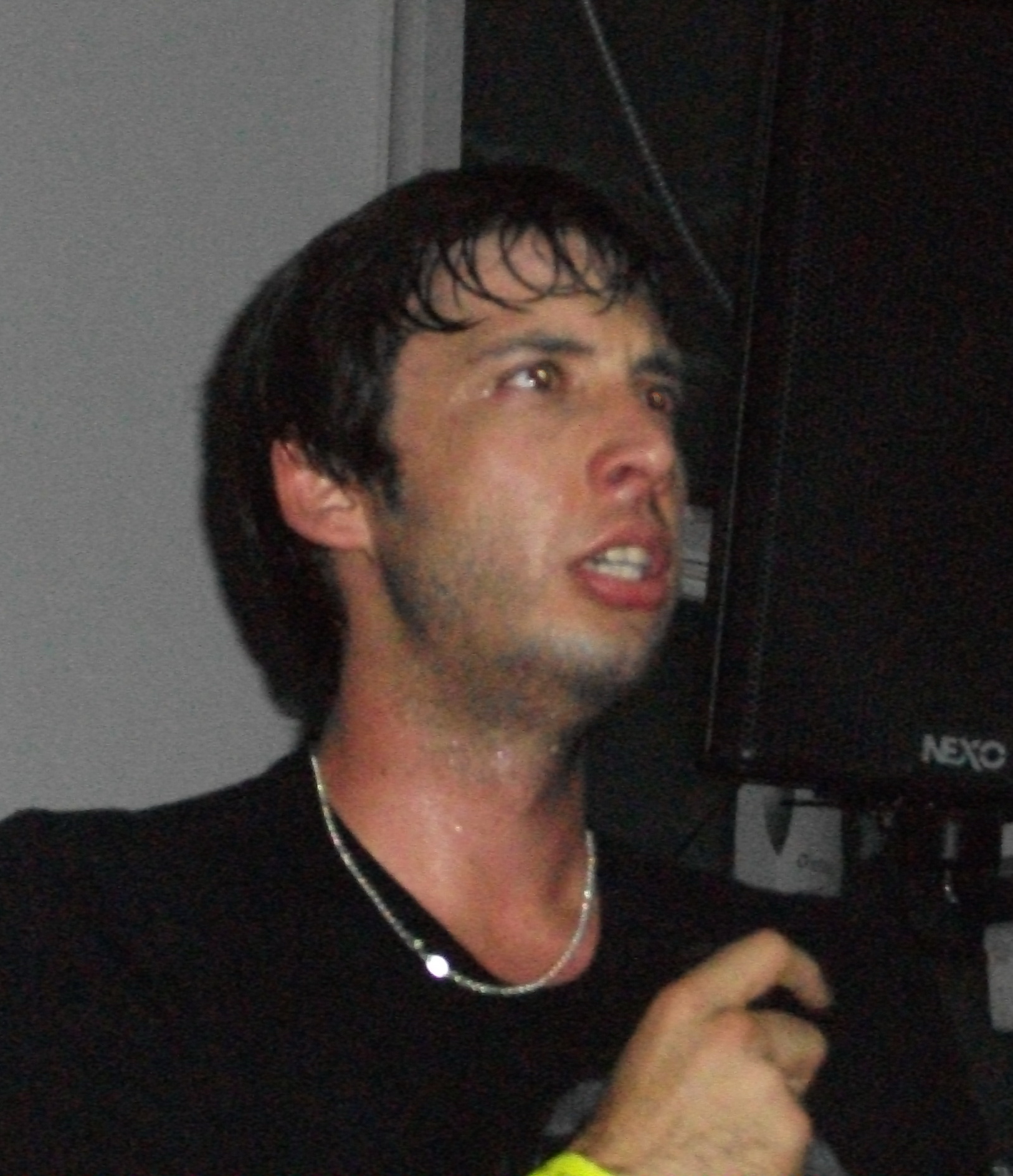 Example performing live in Bangkok and looking moist.